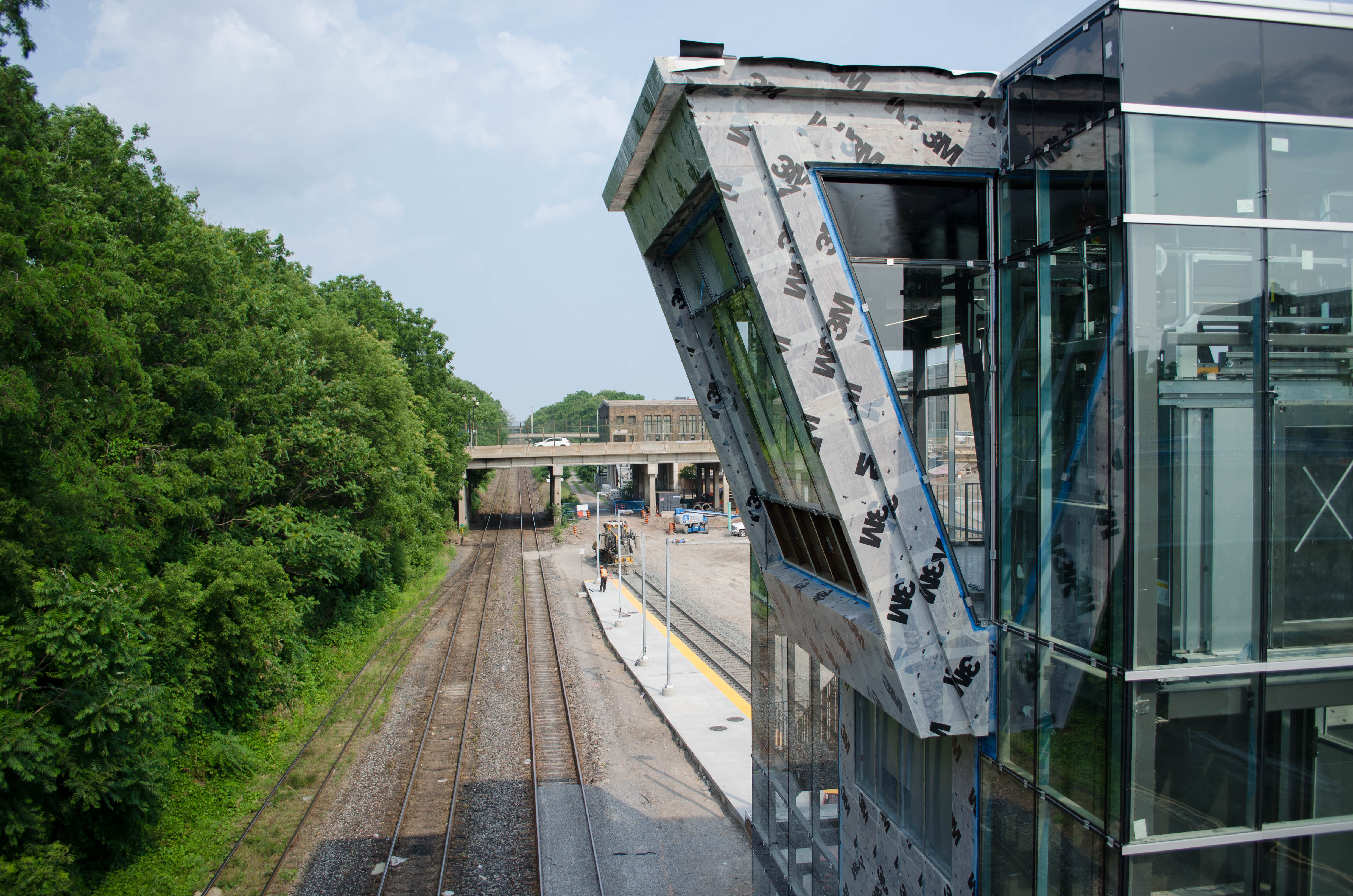 West Harbour GO Station under construction in Hamilton, Ontario